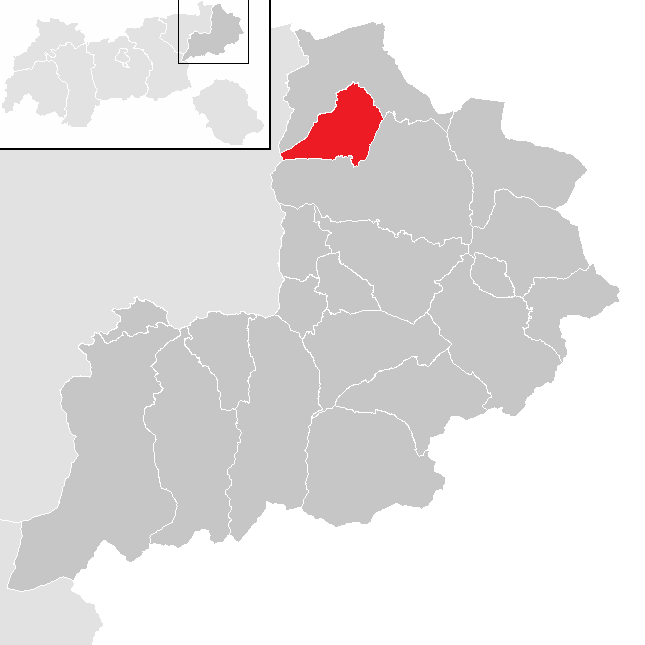 District Kitzbühel